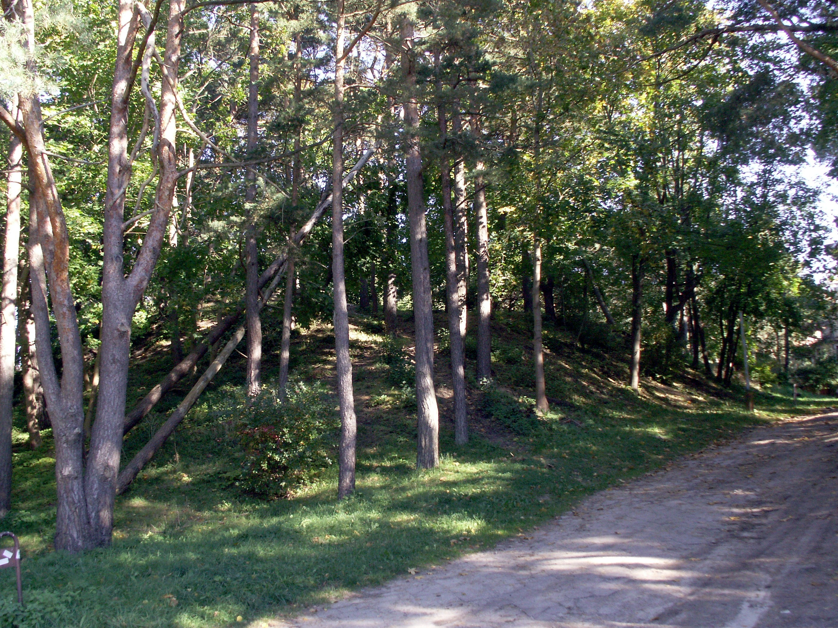 Hill in Palanga, Lithuania